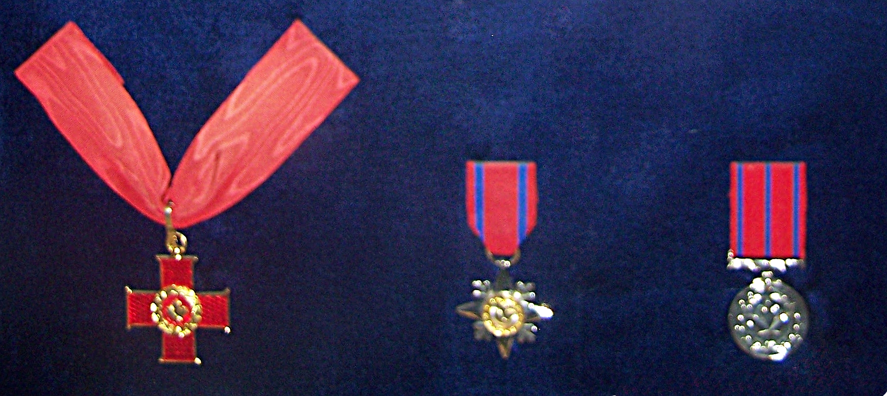 This is a photograph of the three elements of the Canadian Bravery Decorations on display at La Citadelle in Quebec City. This photo was taken July 2008. From left to right the Cross of Valour, Star of Courage, Medal of Bravery. This is released under Copy Left.